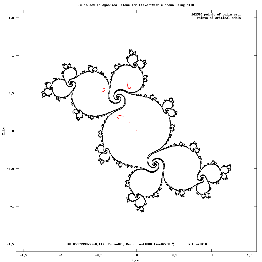 Julia set and critical orbit for f(z)=z*z-0.11+0.65569999i; . Made in Maxima using MIIM. Code for finding period is based on code by JC Sprott[1]